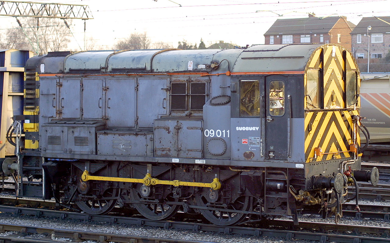 09011 at Bescot on 16/02/01